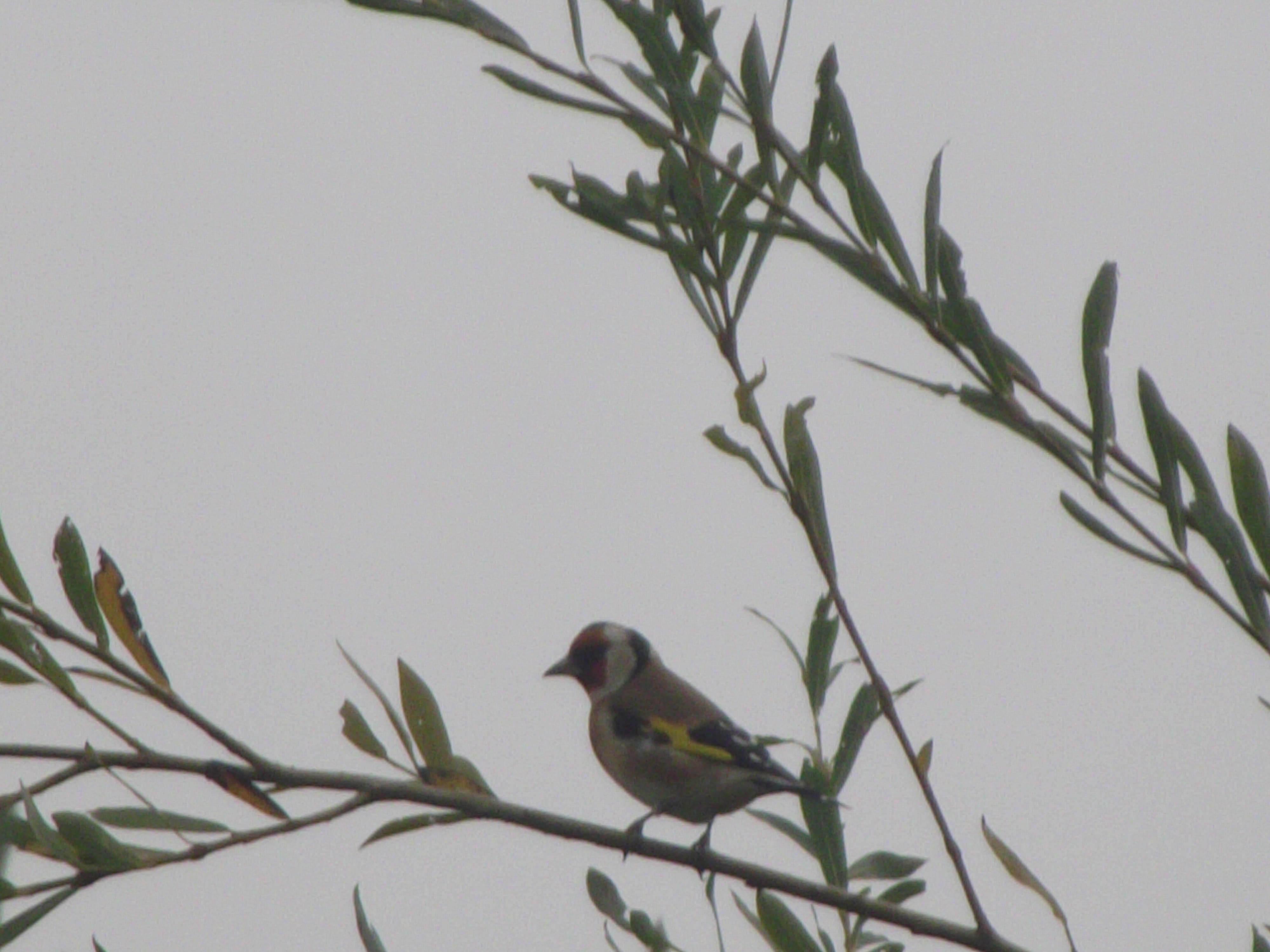 Carduelis Carduelis